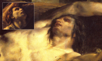 Eugène Delacroix hat tips Théodore Géricault in his Dante and Virgil in Hell